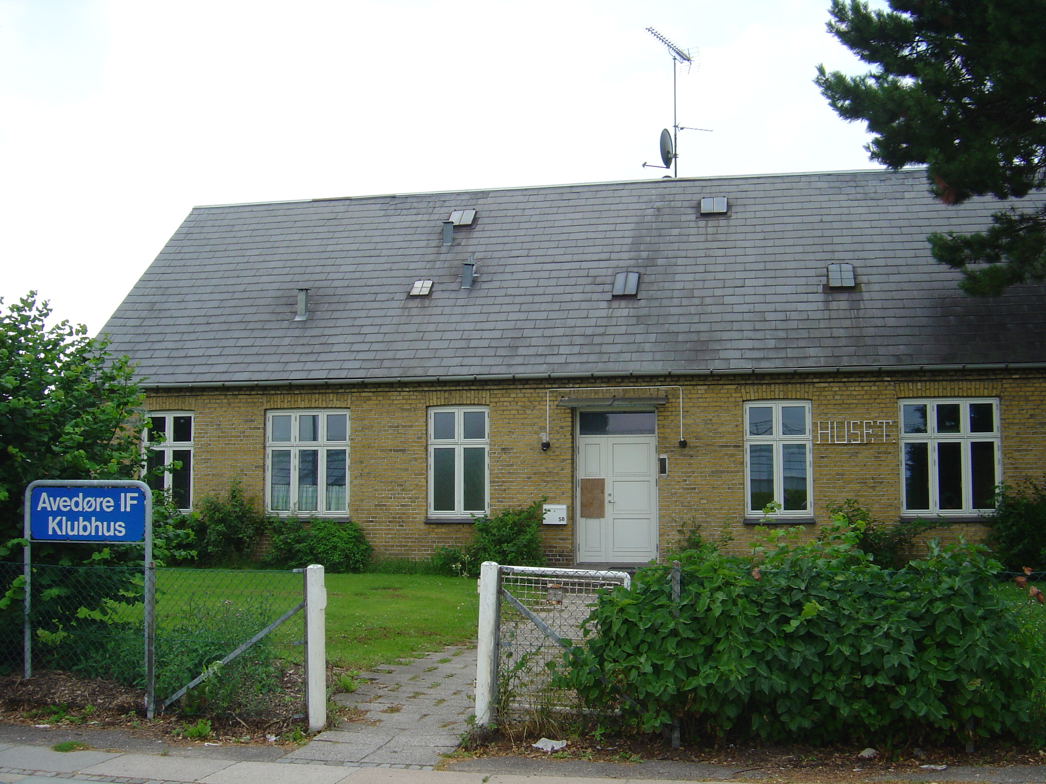 Avedøre Idrætsforening - the club house of a Danish association football club on Byvej in Hvidovre, Copenhagen. Seen from the northeast side.